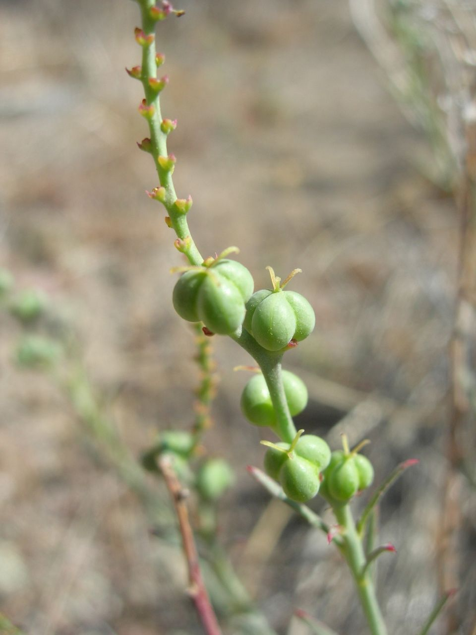 Stillingia linearifolia (narrowleaf stillingia), Agua Dulce, California, USA.